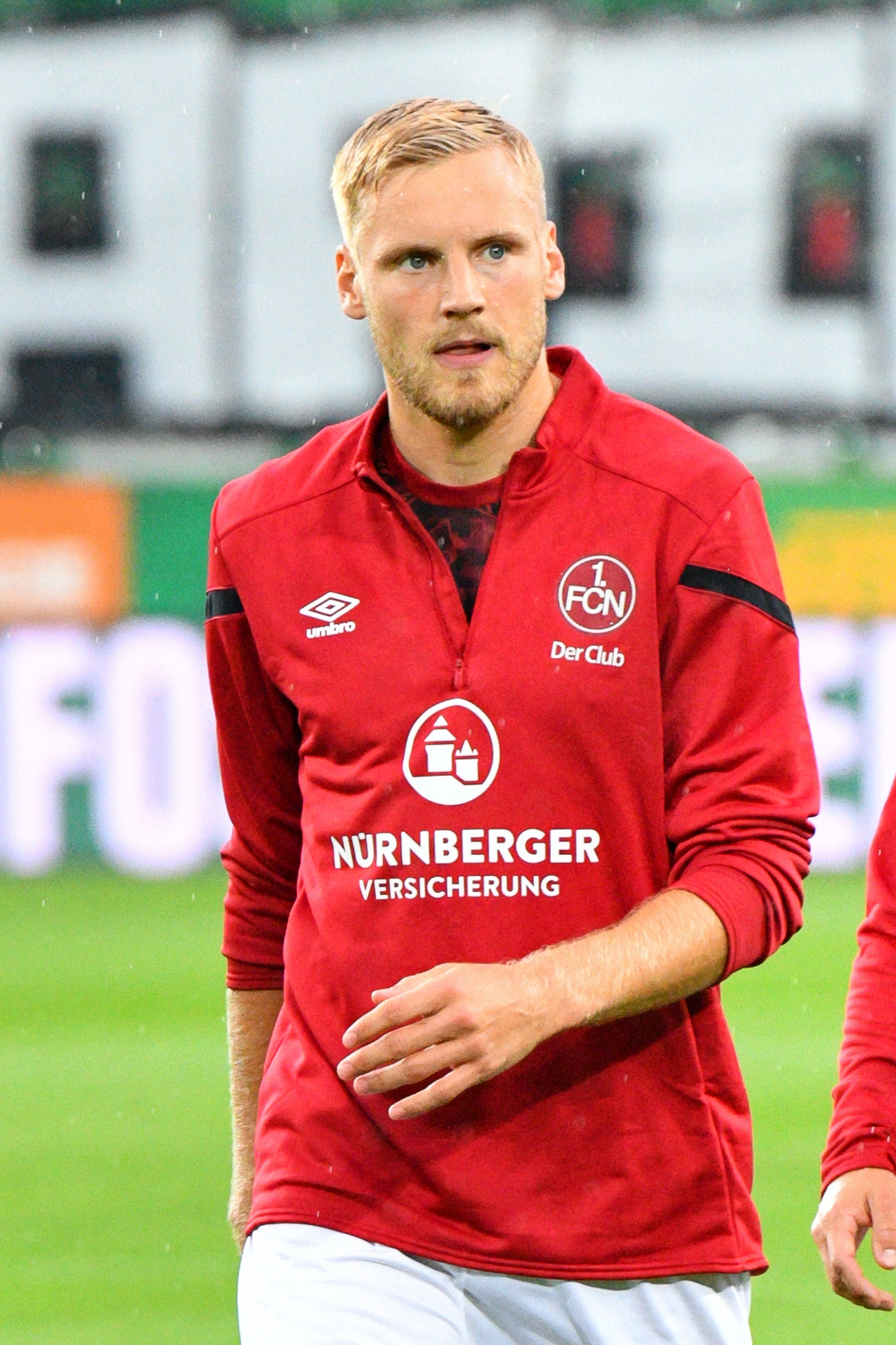 Austrian soccer league season 2019/20, friendly pre-season match SK Rapid Wien vs. 1. FC Nürnberg. Picture shows: Hanno Behrens (FCN).